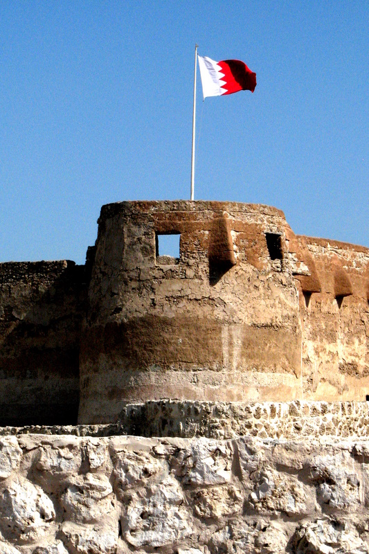 Arad Fort